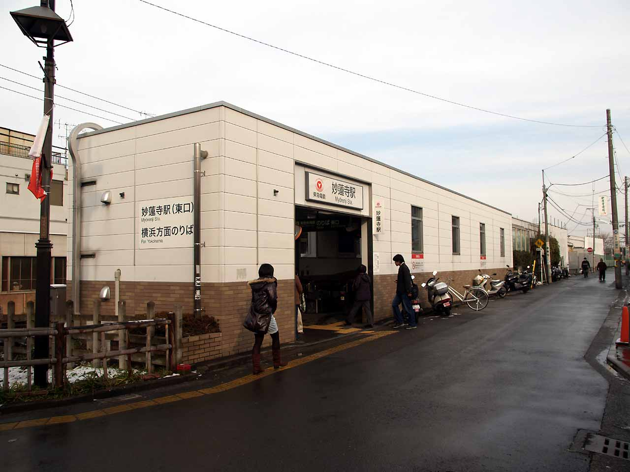 Tokyu Myorenji station east side entrance.（妙蓮寺駅東口）